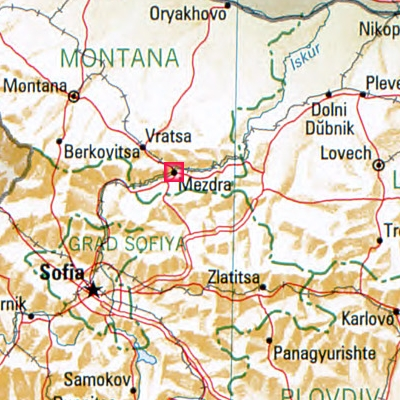 location of Mezdra in Bulgaria; part of the map Bulgaria_1994_CIA_map.jpg